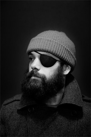 Photo of Clarence Witherspoon